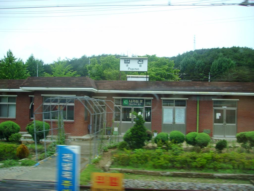 Beobjeon Station (Yeongdong Line, Beobjeon-myeon, Bonghwa-gun, Gyeongsangbuk-do, South Korea)